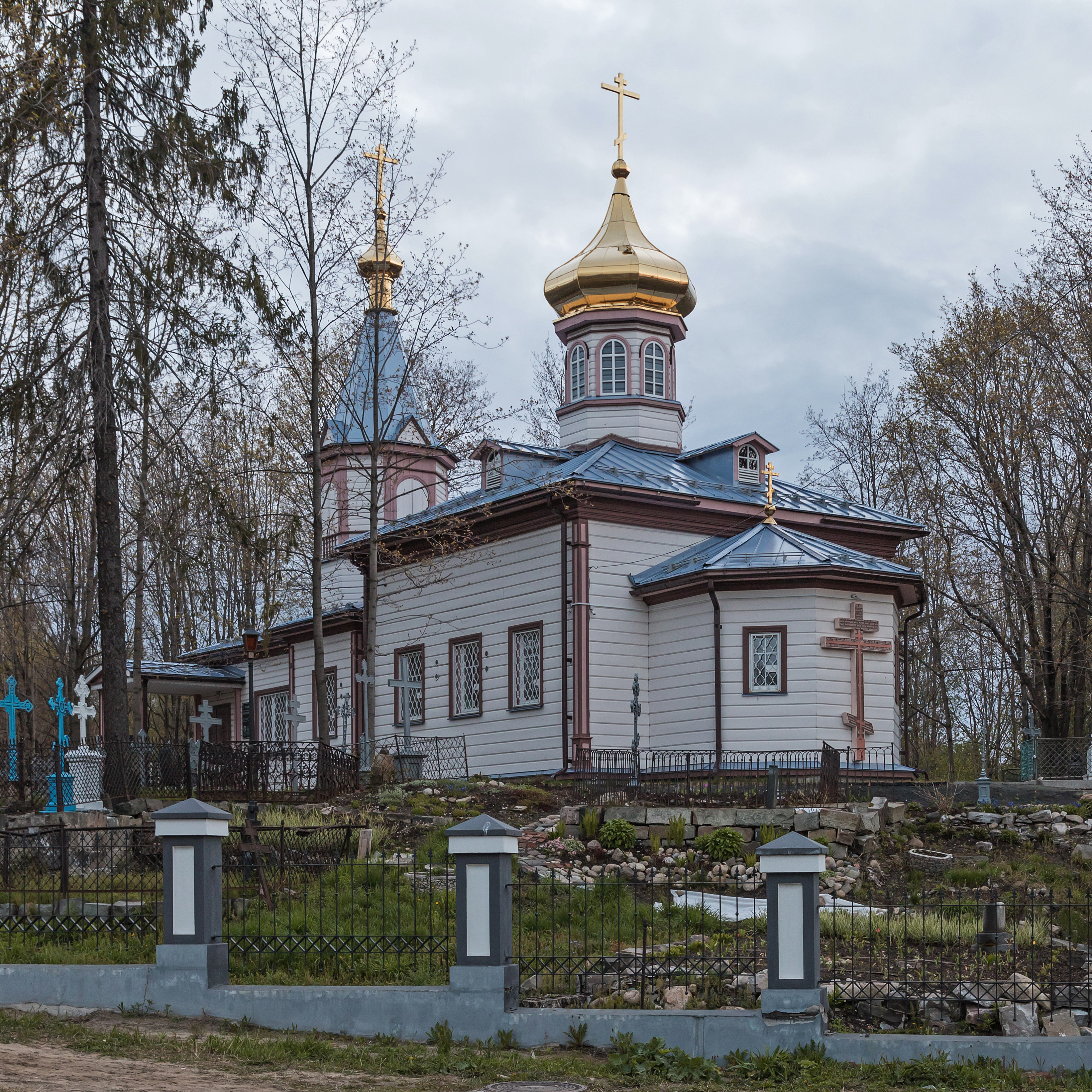 Church of St. Catherine in Petrozavodsk, Republic of Karelia (Russia).